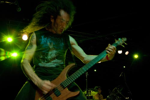 Dan Lilker of Brutal Truth, live at Hole In The Sky, Bergen Metal Fest 2007